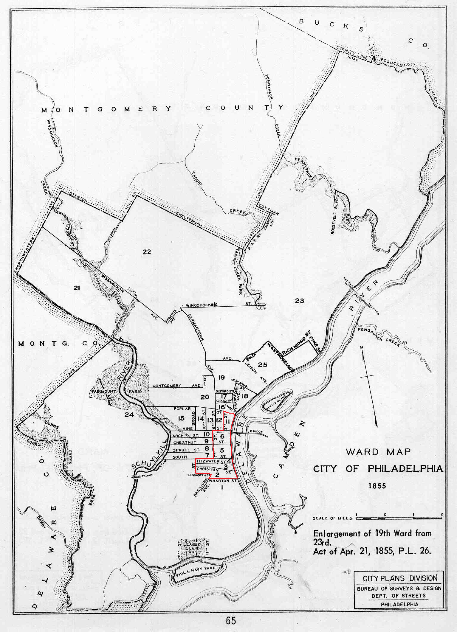 Pennsylvania's first congressional district in 1860